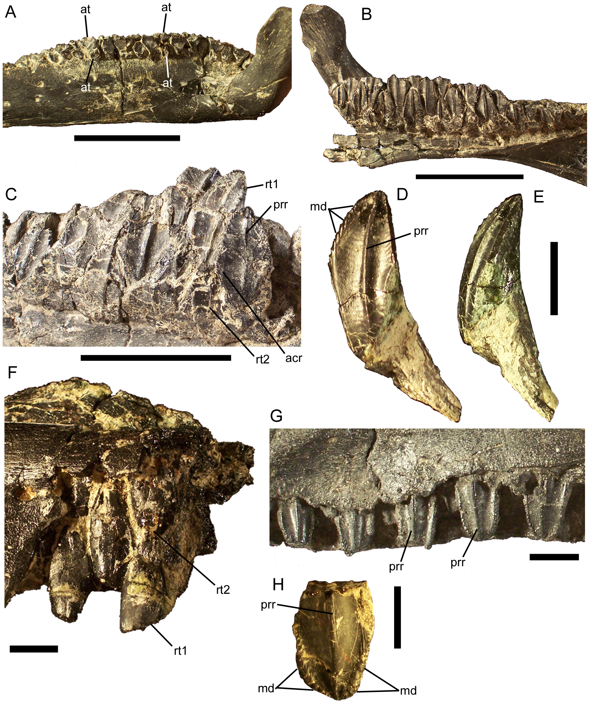 Dentition of Eolambia. Teeth in left dentary CEUM 74632 (Eo2) in (A) occlusal and (B) lingual views. Teeth in right dentary of CEUM 9758 (holotype) in (C) lingual view. Isolated dentary tooth CEUM 34261 (Eo2) in (D) lingual and (E) distal views. Teeth in right maxilla CEUM 35492 (Eo2) in (F) lingual view. Teeth in right maxilla CEUM 34356 (Eo2) in (G) labial view. Isolated maxillary tooth from the Eo2 bonebed in (H) labial view. Abbreviations: acr, accessory ridge; at, active tooth; md, marginal denticle; prr, primary ridge; rt1, first replacement tooth; rt2, second replacement tooth. Scale bars in A–C equal 5 cm; scale bars in D–H equal 1 cm.